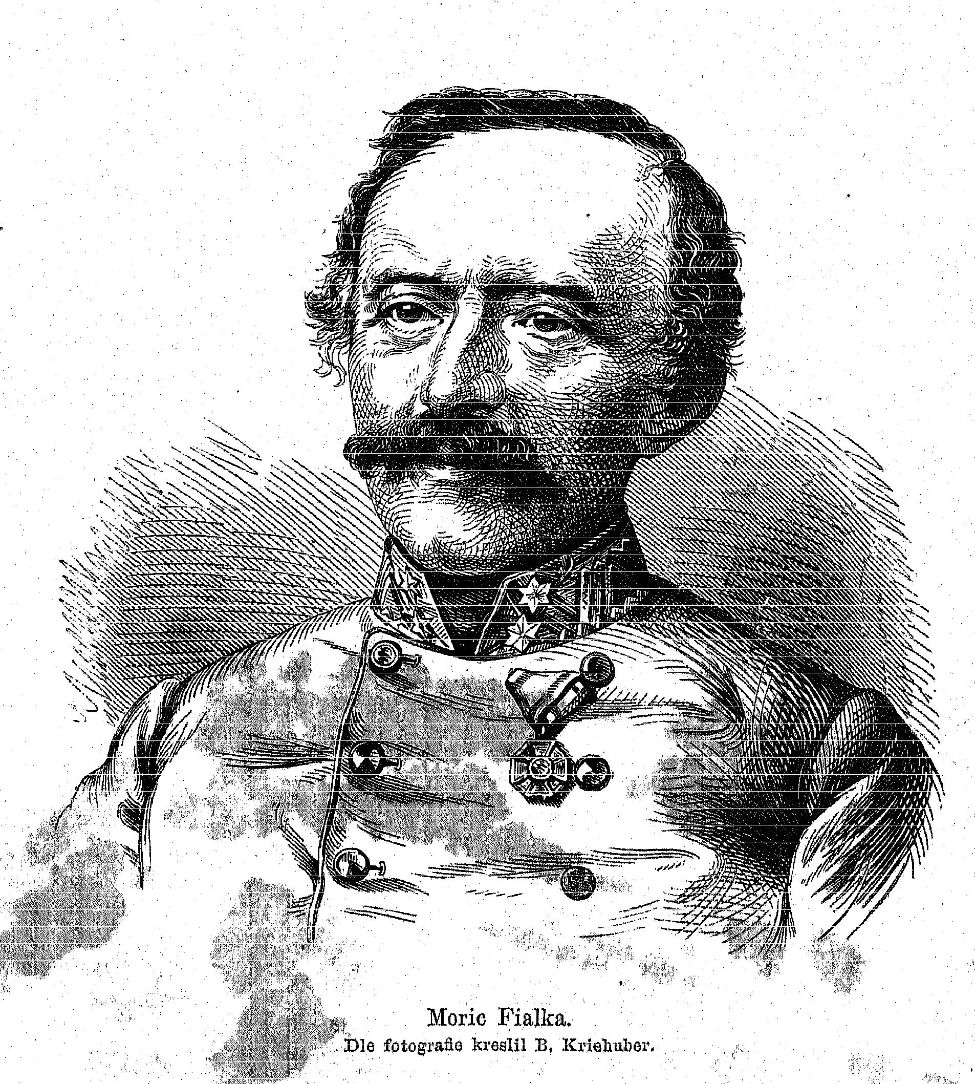 Portrait of Moric Fialka (1809 - 1869), Czech officer in Austrian Army, translator and journalist.